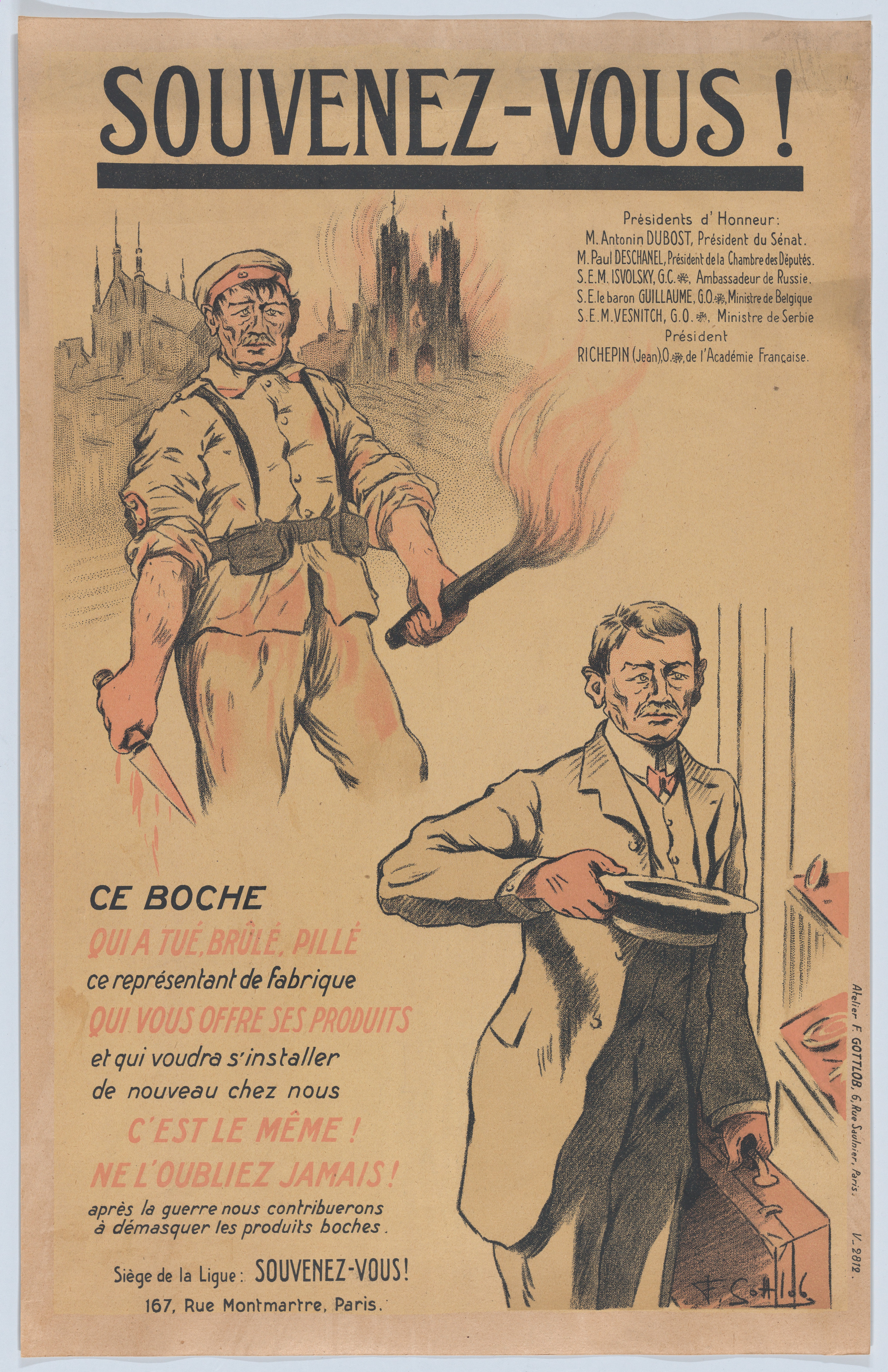 Print, poster; Prints